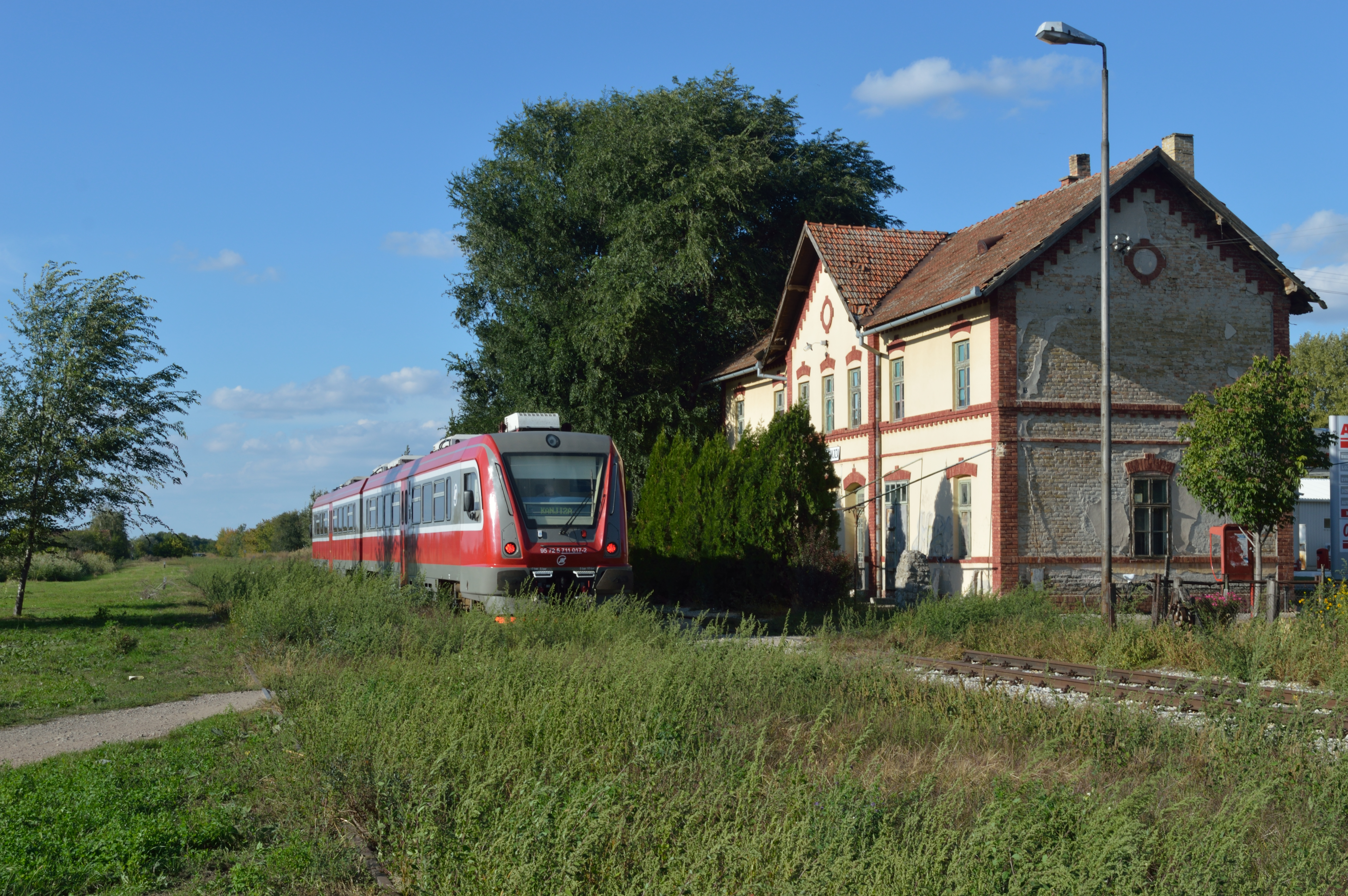 Balkans Rail Trip, Autumn 2013 - Day Two Kanjiža sees two trains per day and marks the end of what was once a through line from Horgoš to Senta. Seen on 24 September 2013, 711.017 forms train 7487, 16:21 Kanjiža to Subotica. These new 2-car DMUs built by Metrovagonmas in Russia as type RA2 are is in fact the first new passenger rolling stock for Serbia since the break up of the former Jugolslavia. Altogether 25 sets have been ordered and will be distributed to several depots around the network. These will eventually replace much of the older stock that has been in ownership since new or bought in second hand.